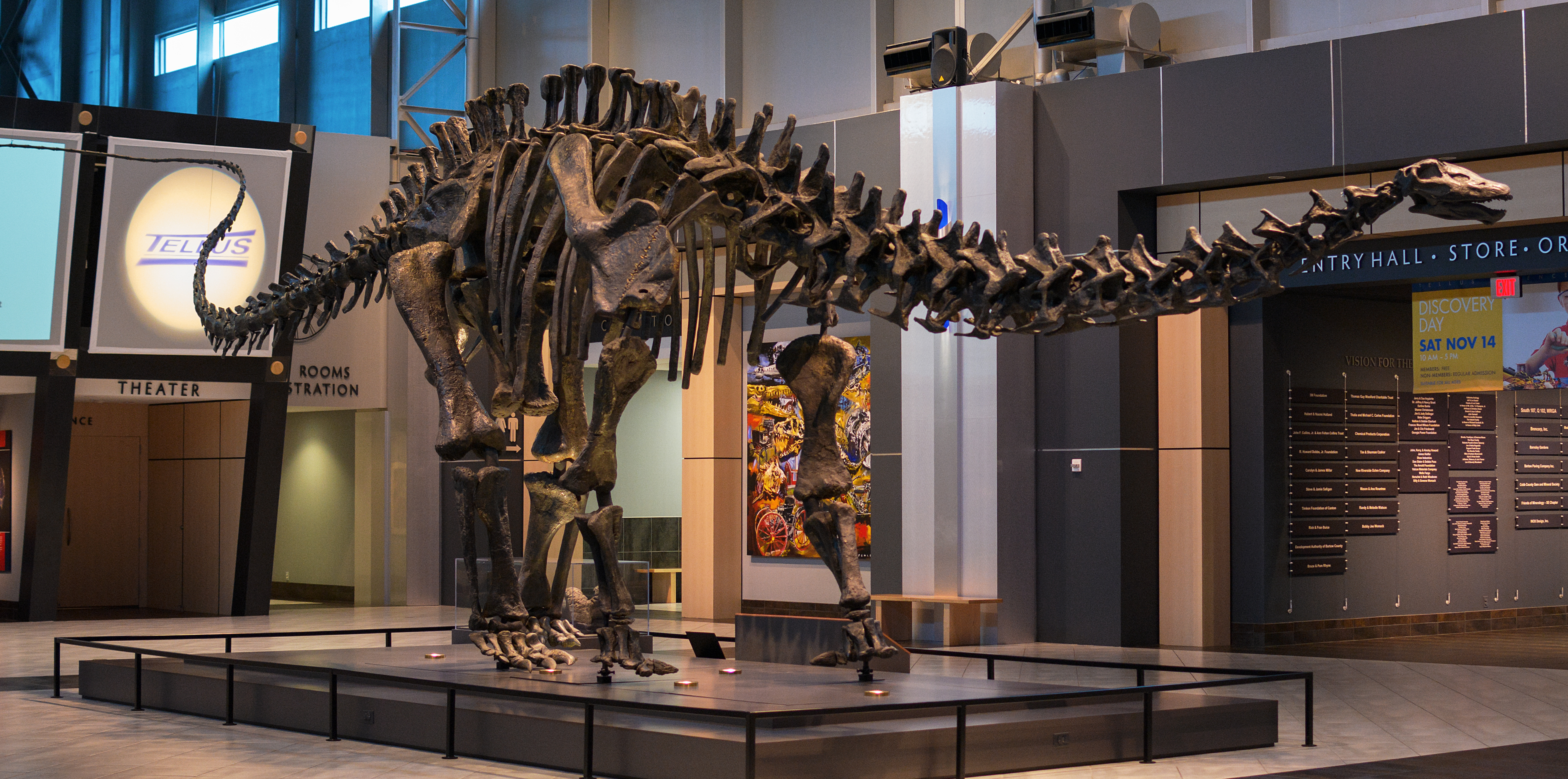 The Tellus Science Museum in Cartersville, GA. Monday, October 26, 2015. pictured: Apatosaurus skeleton